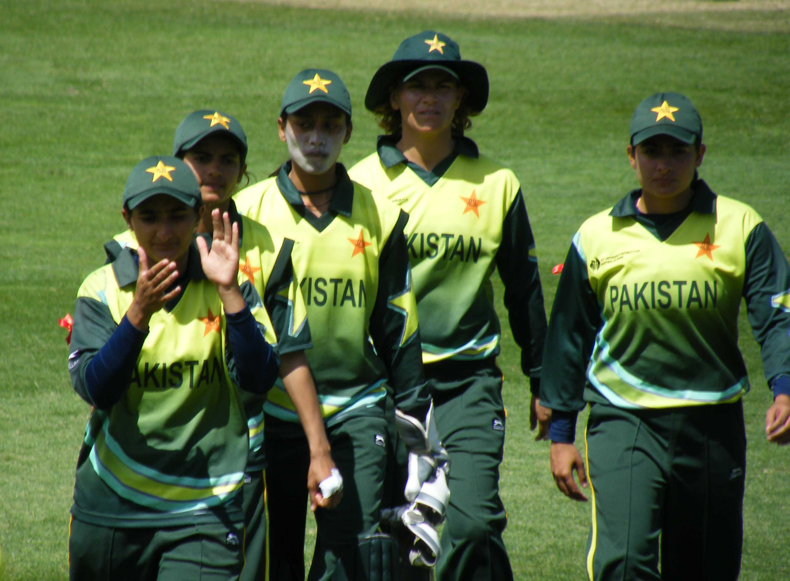 Pakistan Team - ICC Women's Cricket World Cup, Sydney, March 2009.